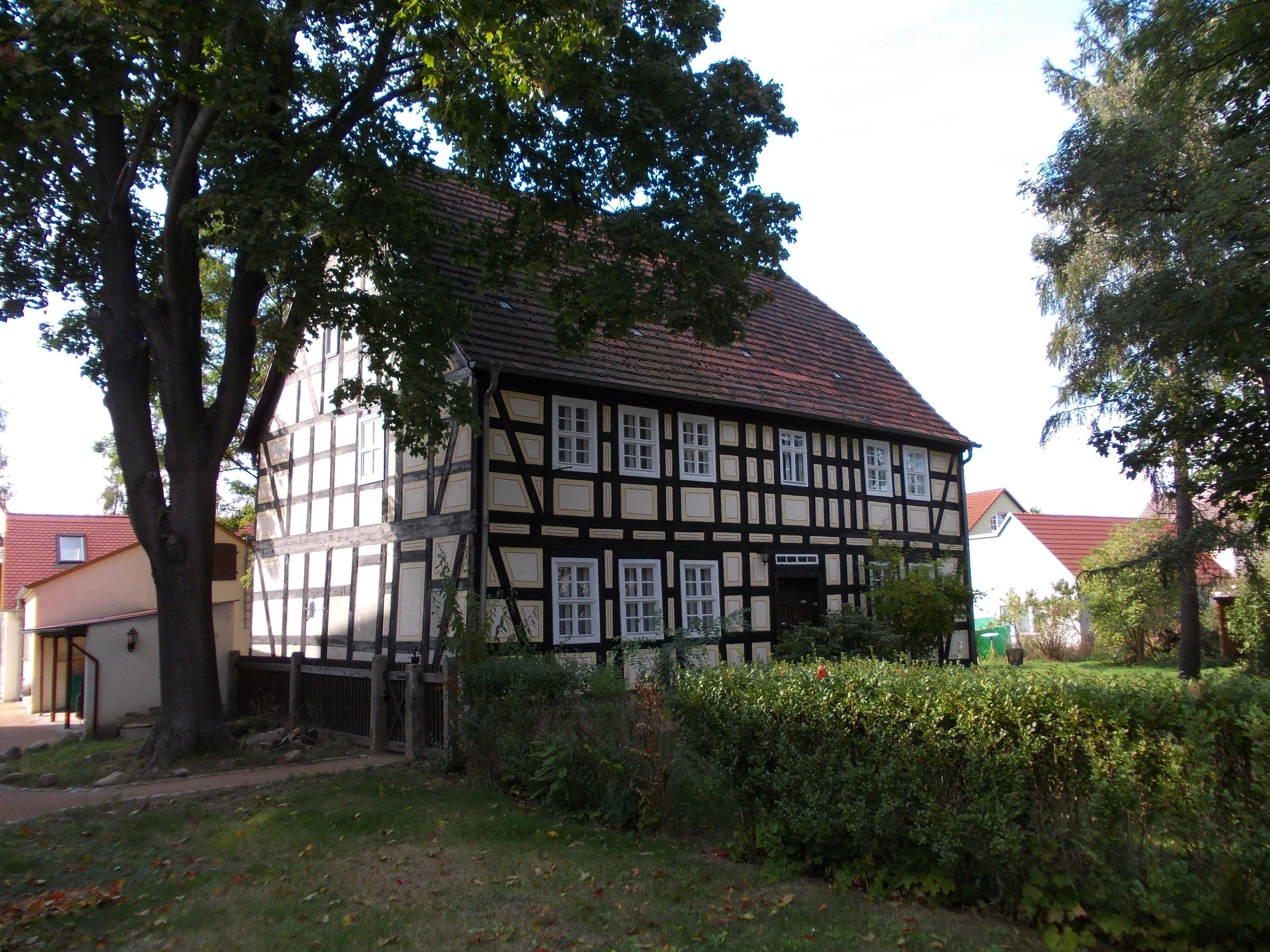 Rectory in Uebigau (Uebigau-Wahrenbrück, Elbe-Elster district, Brandenburg)